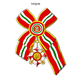 Insignia of Ordem do Mérito Judiciário do Distrito Federal e dos Territórios, Brazil